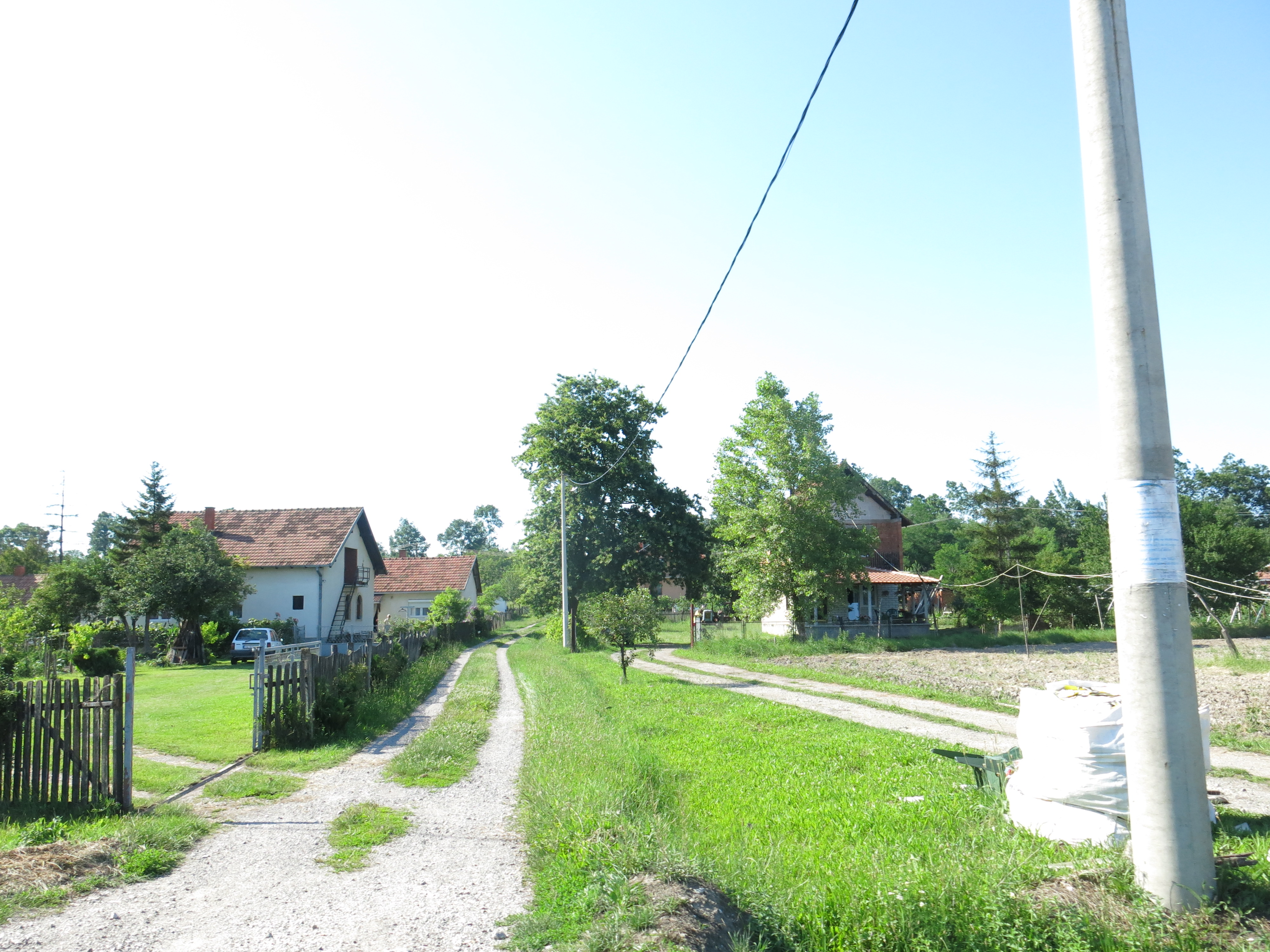 Rubribreza, Houses in the village